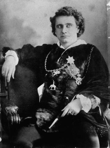 Scottish-Australian actor Walter Bentley (1849-1927) for a stage production of Hamlet